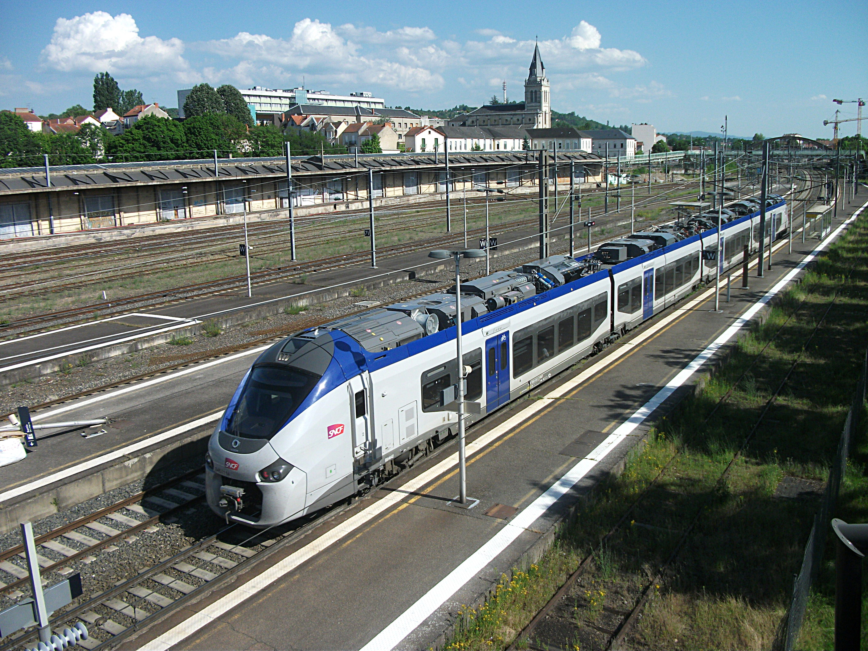 Alstom Régiolis B 84641/642 in Vichy railway station on TER 873361 going to Clermont-Ferrand [14416]